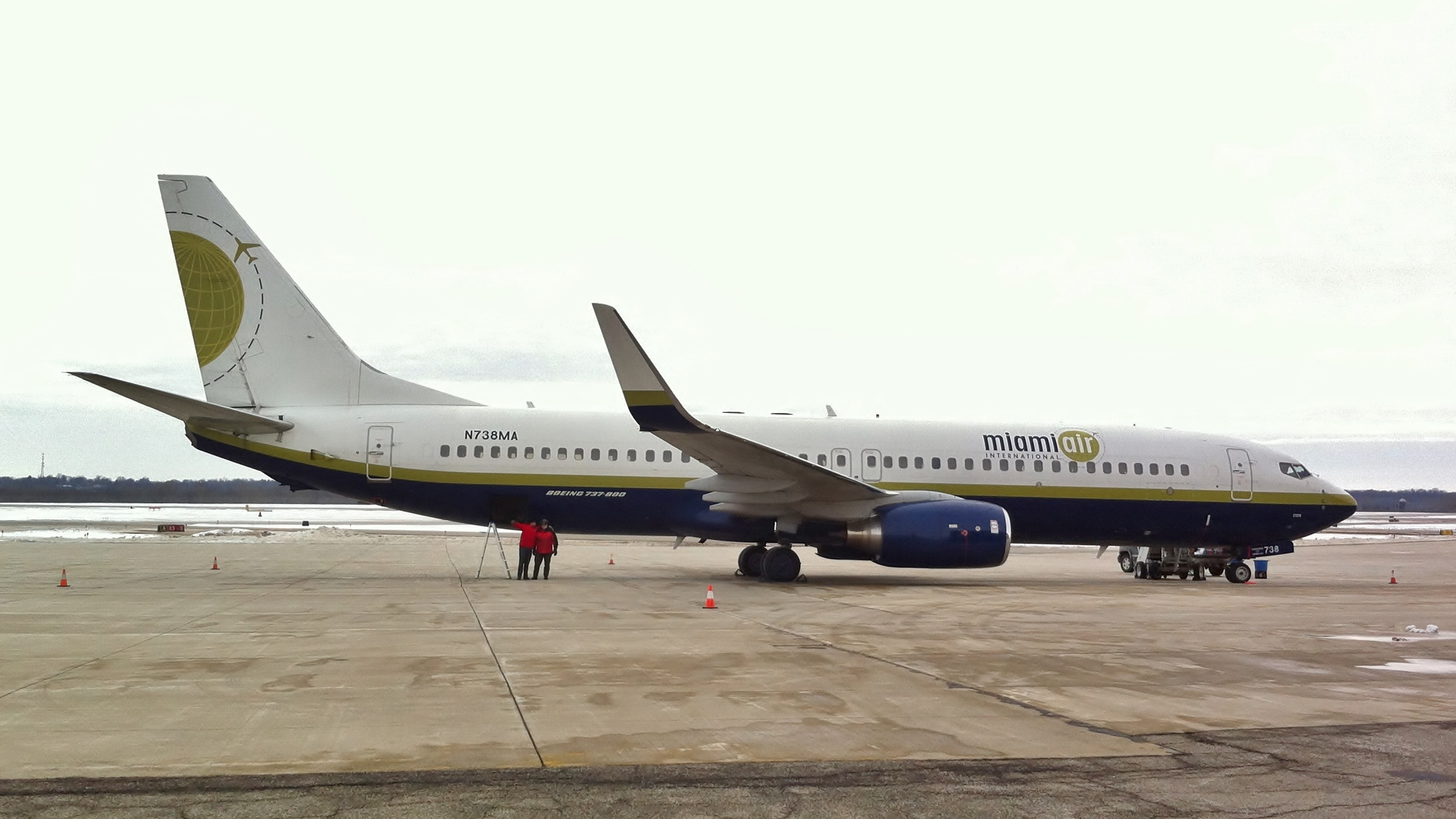 Miami Air 737-800 near the terminal building